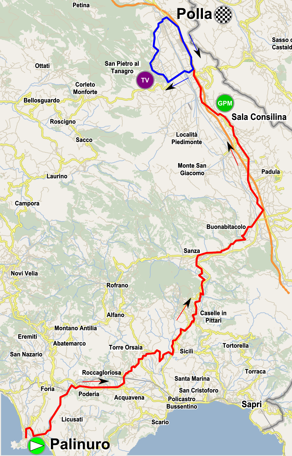 Map of stage 9 of Giro donne 2017.